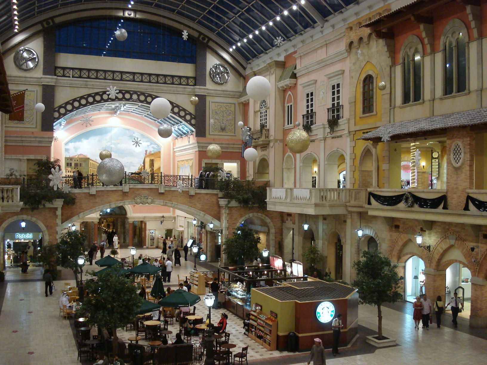 Mercato Shopping Mall, Dubai